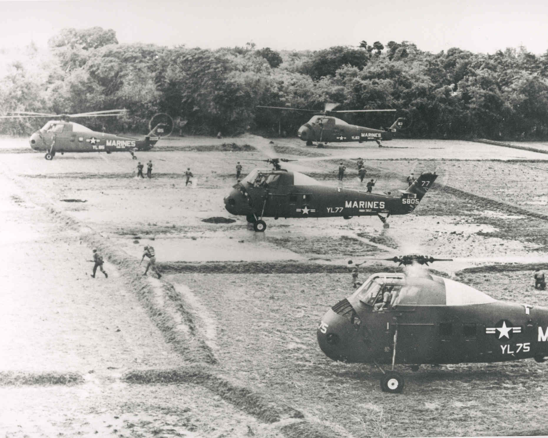 U.S. Marine Corps Sikorsky HUS-1 (UH-34D) Seahorse helicopters of Marine medium helicopter transport squadron HMM-362 insert troops on a rice paddy to assault a treeline in the background, 1962.